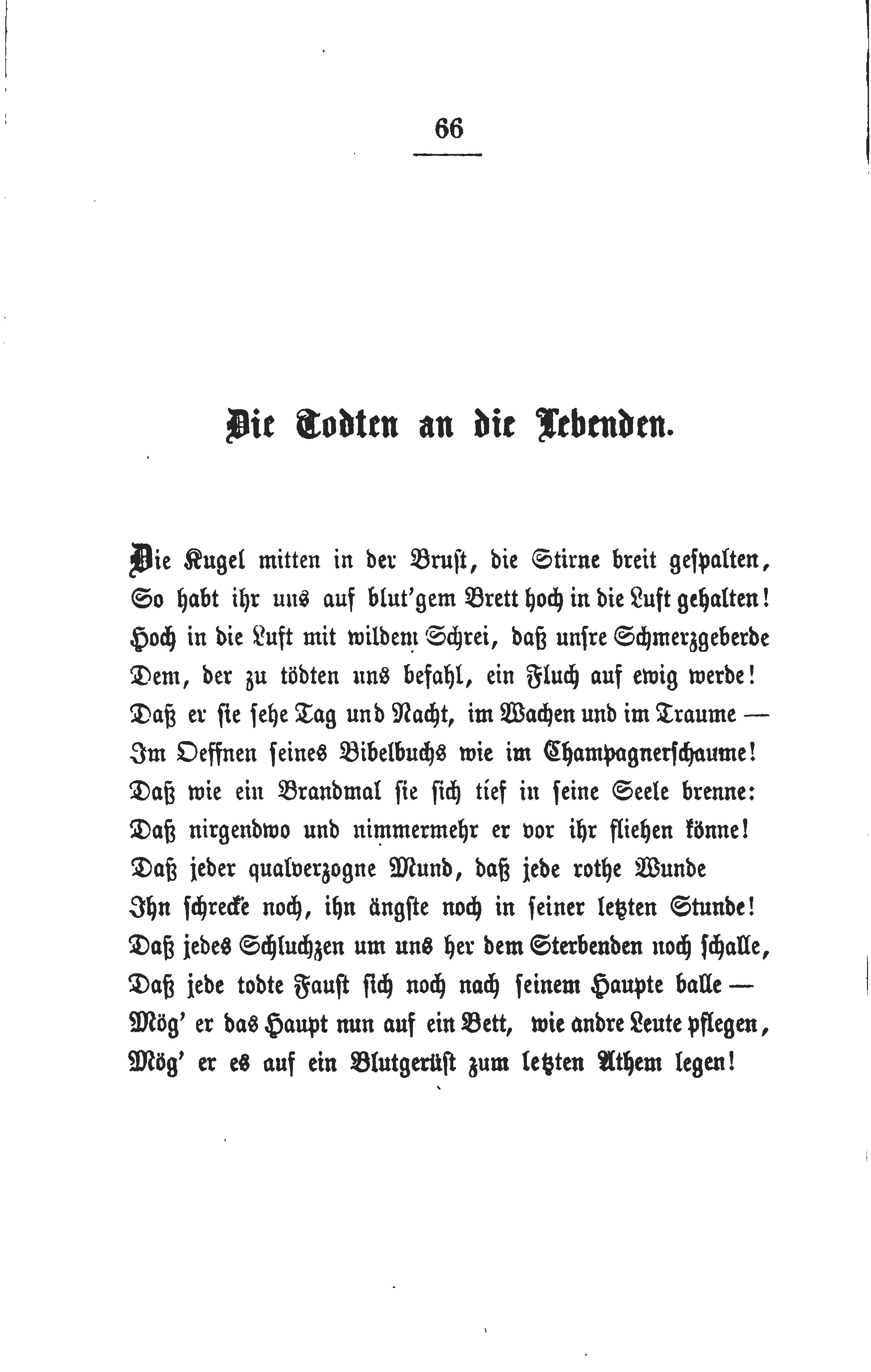 Political Poem